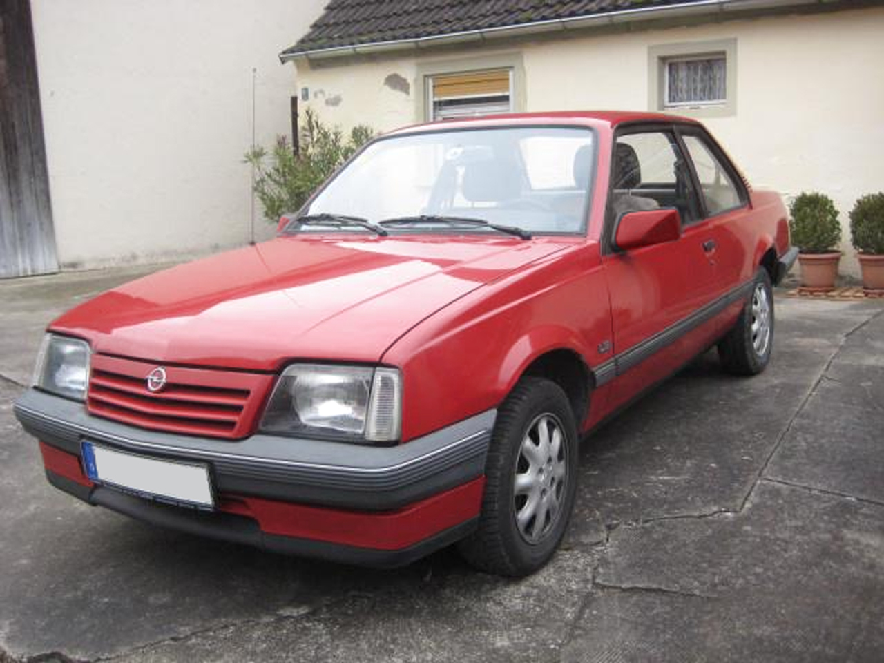 Coupe body